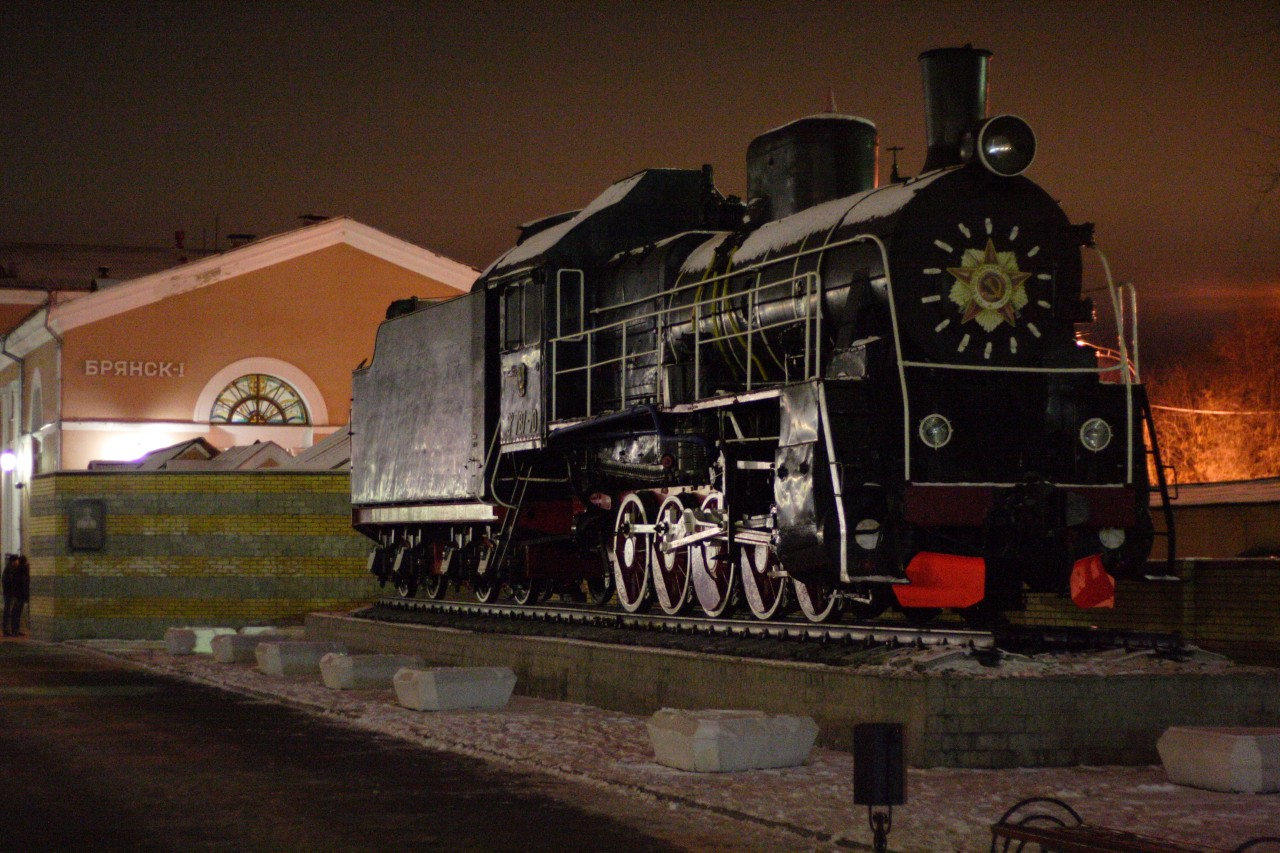 Steam locomotive Er 787-70 as a memorial at train station Bryansk-Orlovskiy, Russia